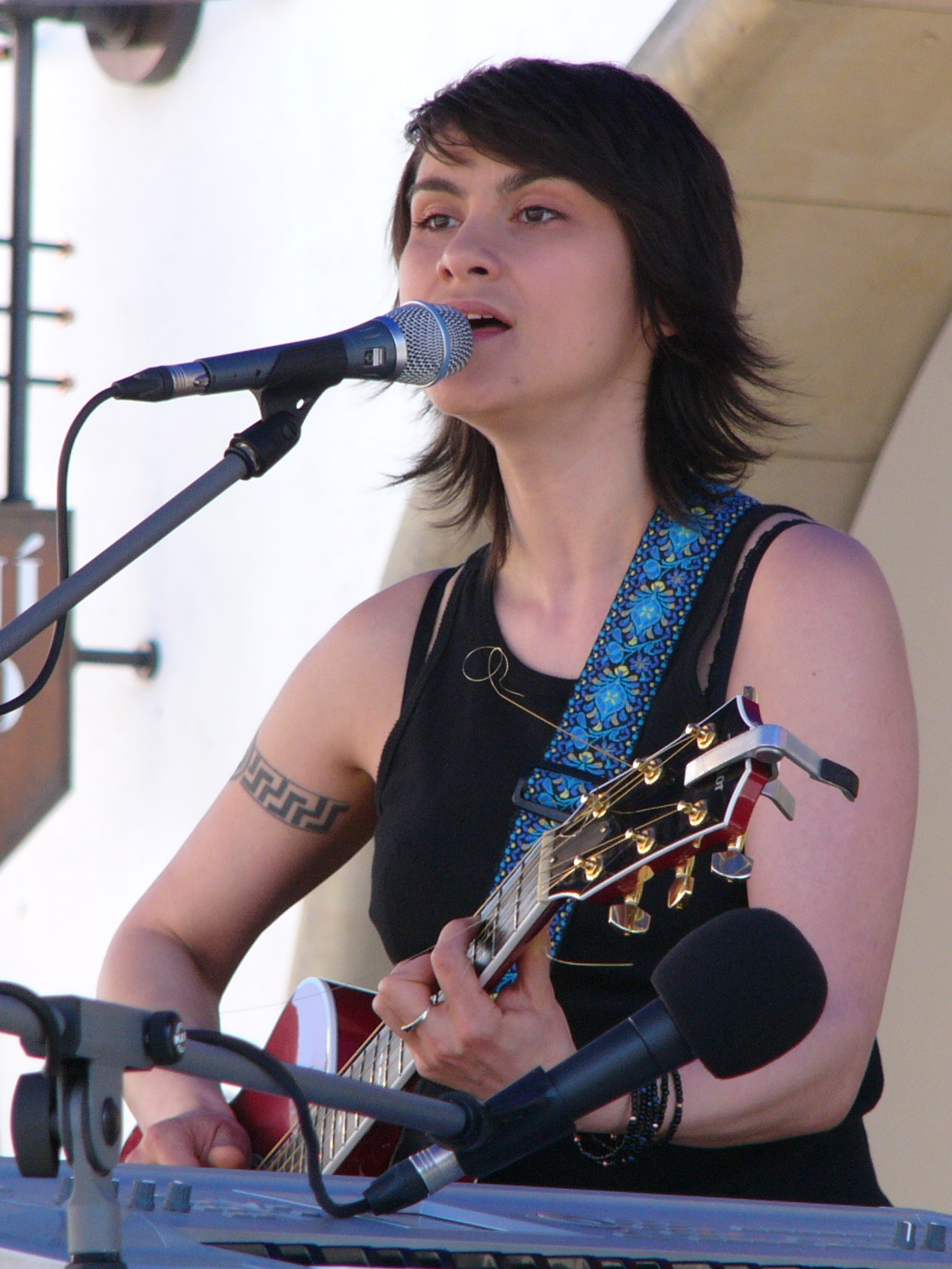 Czech vocalist Lenka Dusilová